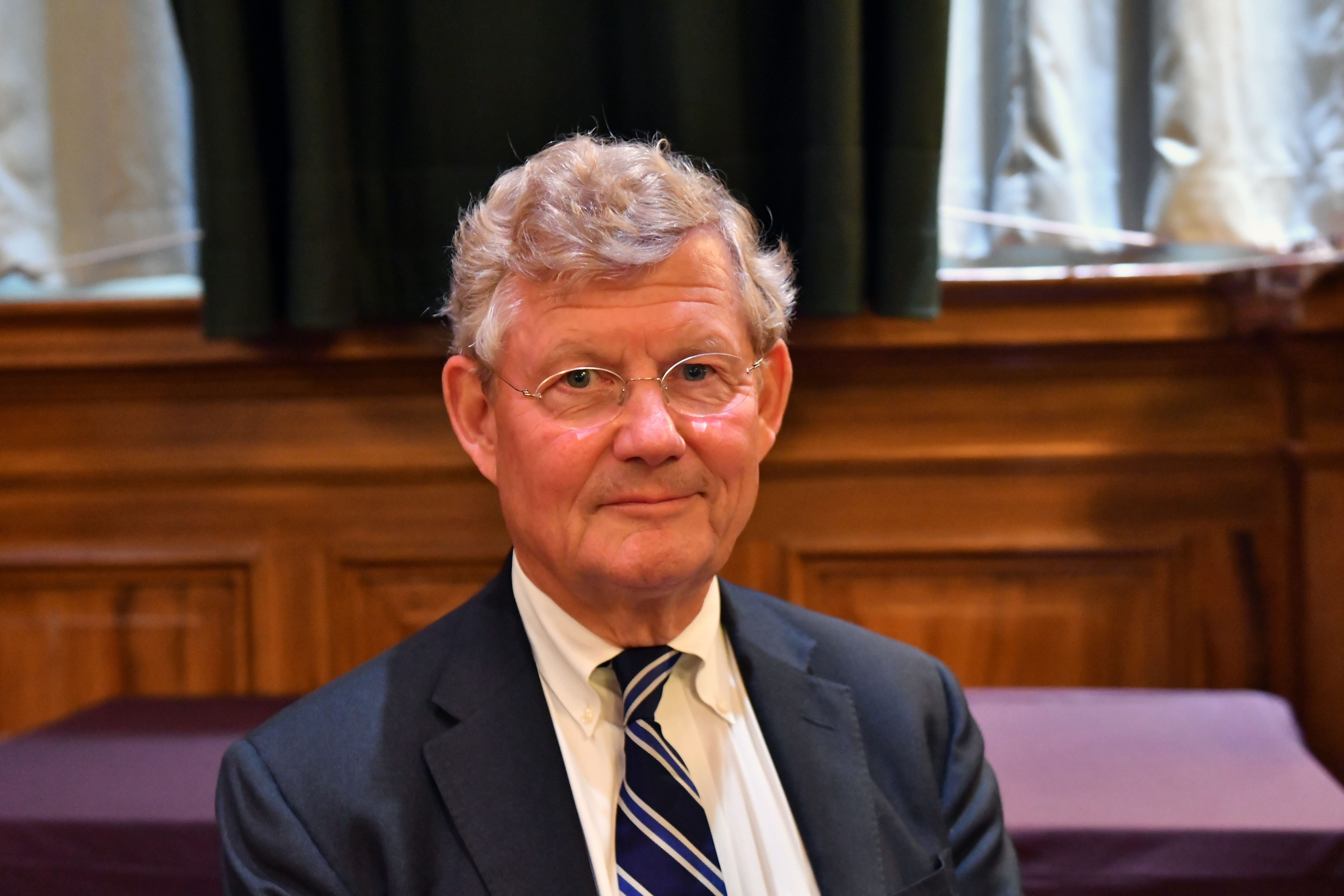 Jacob Wallenberg at History Marketing Summit, September 6, 2018, in Stockholm.